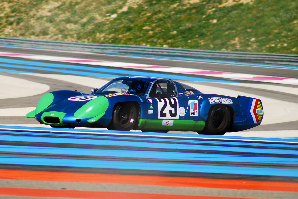 Alpine A220 on Paul Ricard Track